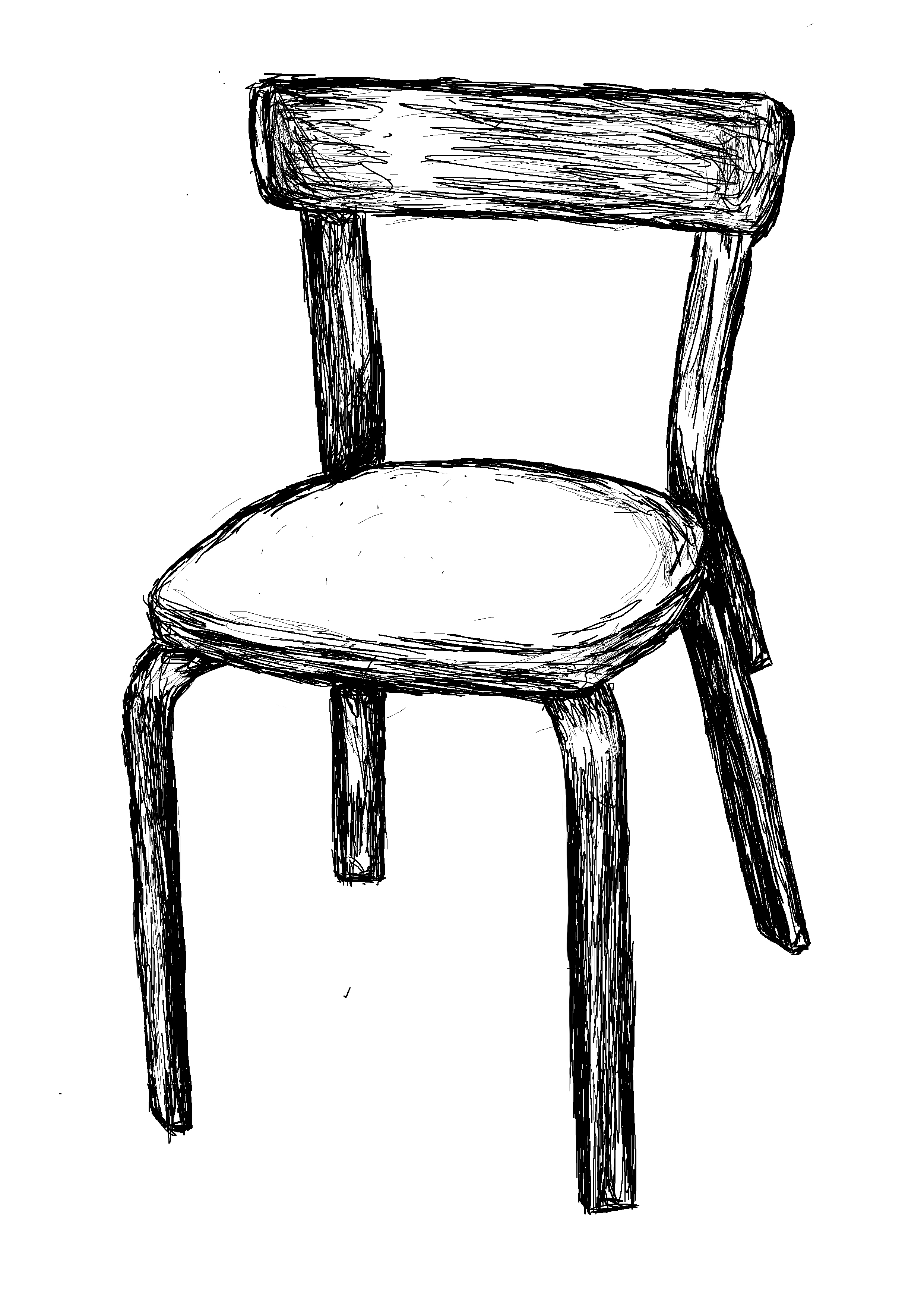 Chair